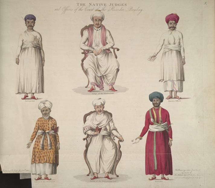 Picture of six 'Native Judges and Officers of the Court of the Recorder, at Bombay', at the beginning of F W Blagdon's book, 'A Brief History of Ancient and Modern India'. According to Blagdon, these drawings 'were taken from life in 1758' and are labelled respectively as holding the following positions. '1. Judge of the Hindu Law, Antoba Crustnagee Pundit. 2. Interpreter, Rhowangee Sewagee. 3. Hindoo Officer, Lellather Chatta Bhutt. 4. Judge of the Mohomedan Law, Cajee Husson. 5. Officer to the Mooremen, Mahmoud Ackram of the Codjee order or priesthood of the cast of Moormens. 6. Haveldar, or summoning Officer, Mahmound Ismael'.